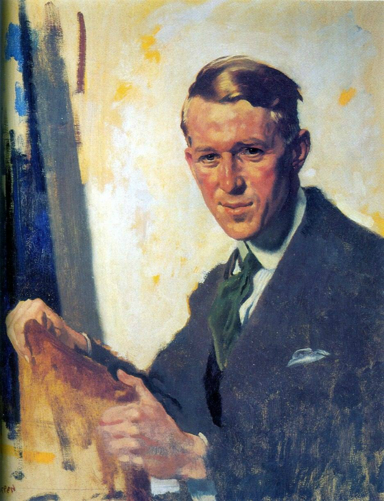 Portrait of Lieutenant Colonel T.E. Lawrence by Sir William Orpen.